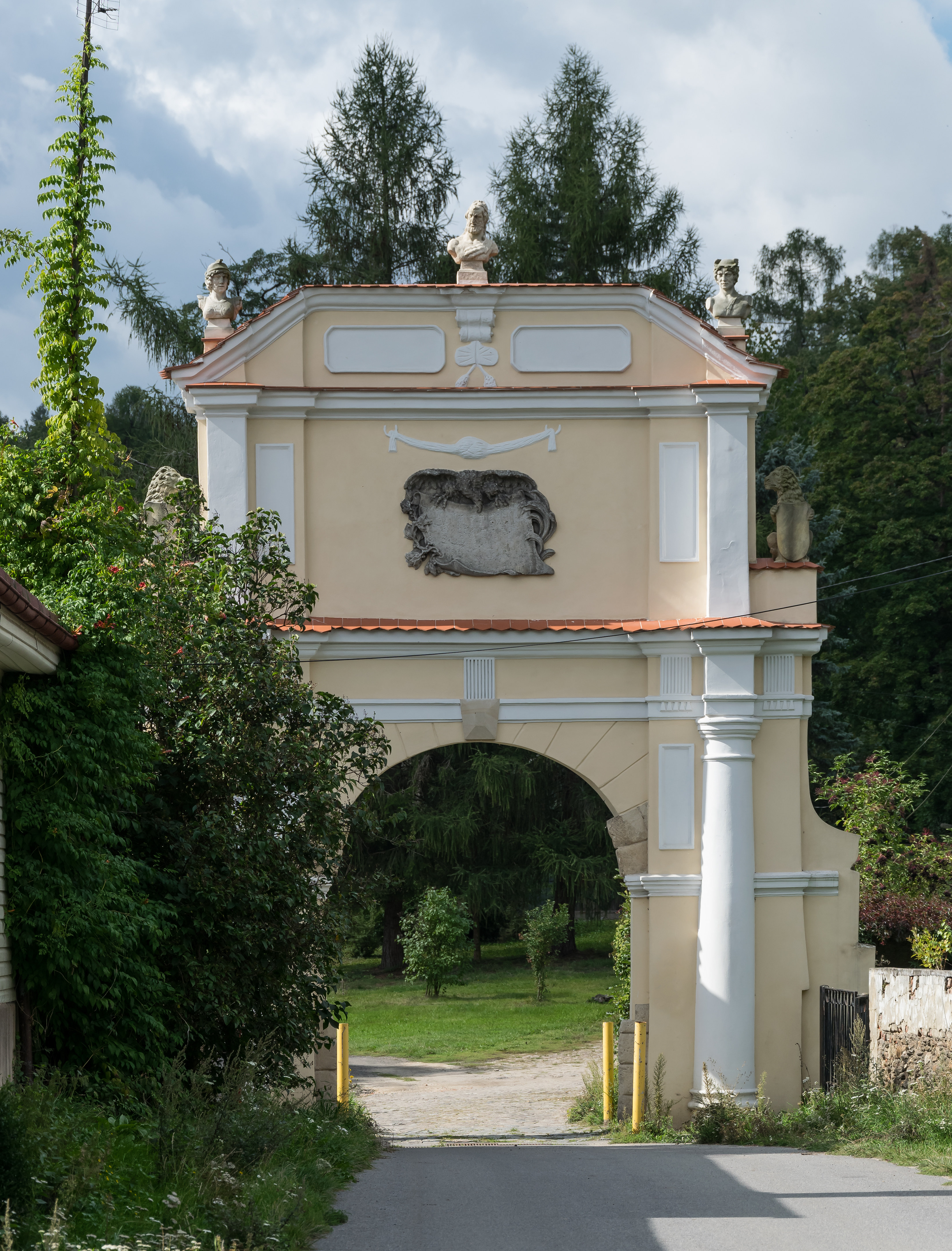 Owiesno castle gate